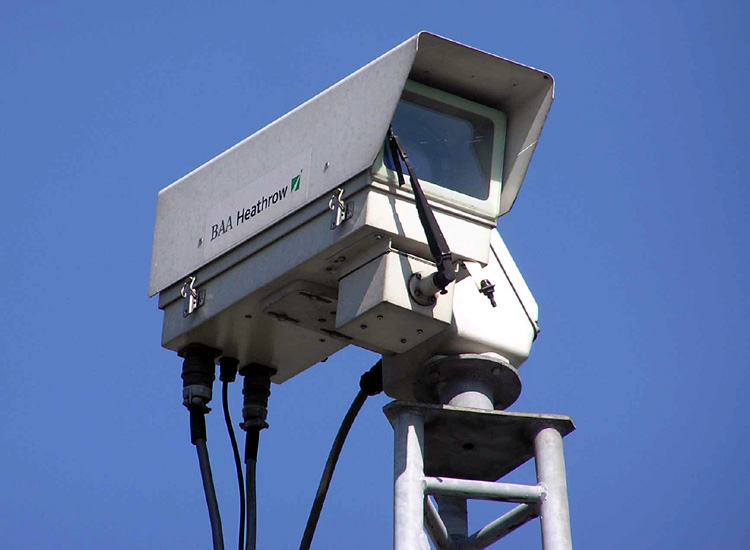 Security camera at London (Heathrow) Airport. Taken by Adrian Pingstone in August 2004 and released to the public domain.